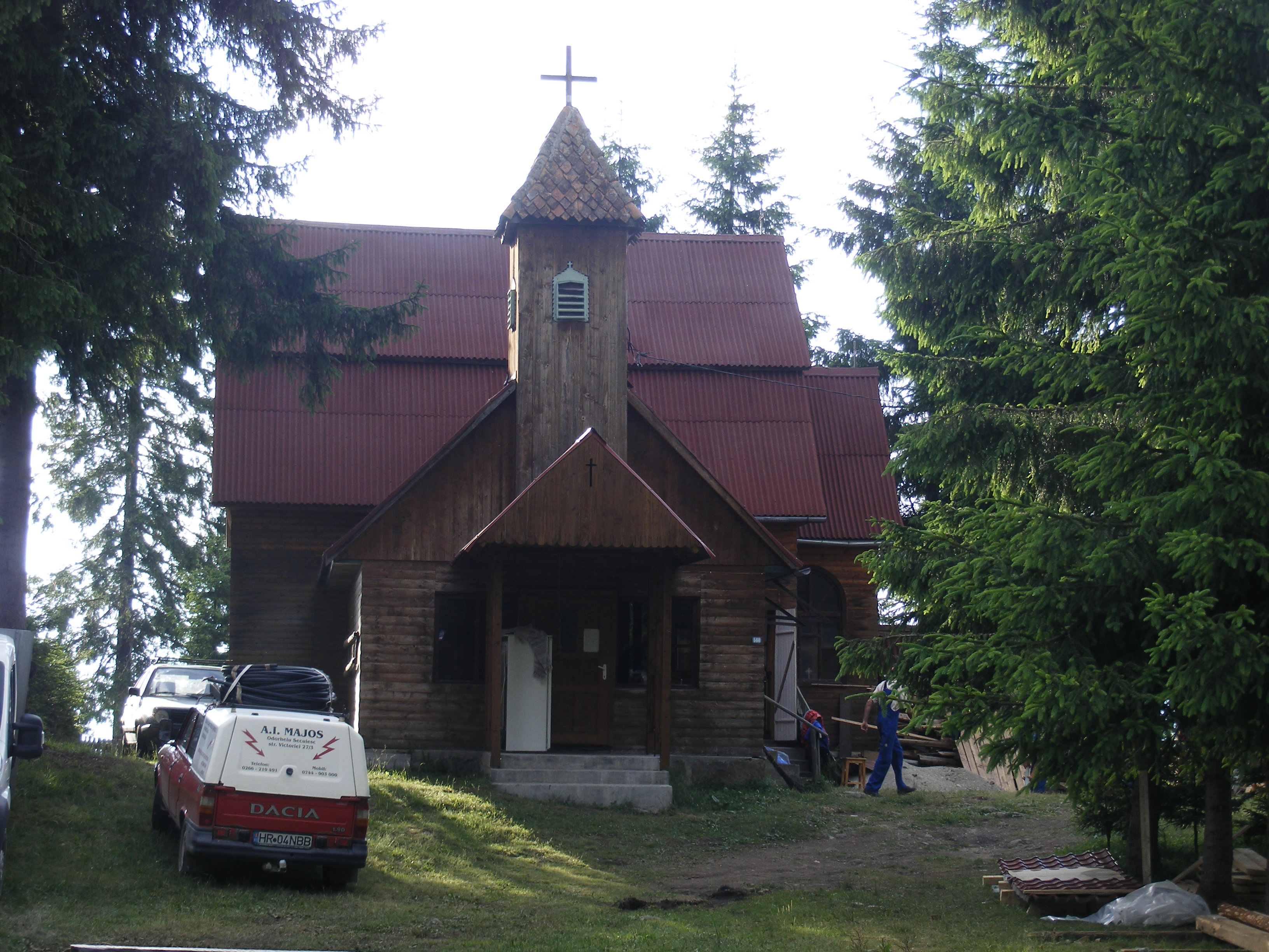 Romano-catholic church in Sântimbru-Băi in the geographical region of Transylvania, Romania